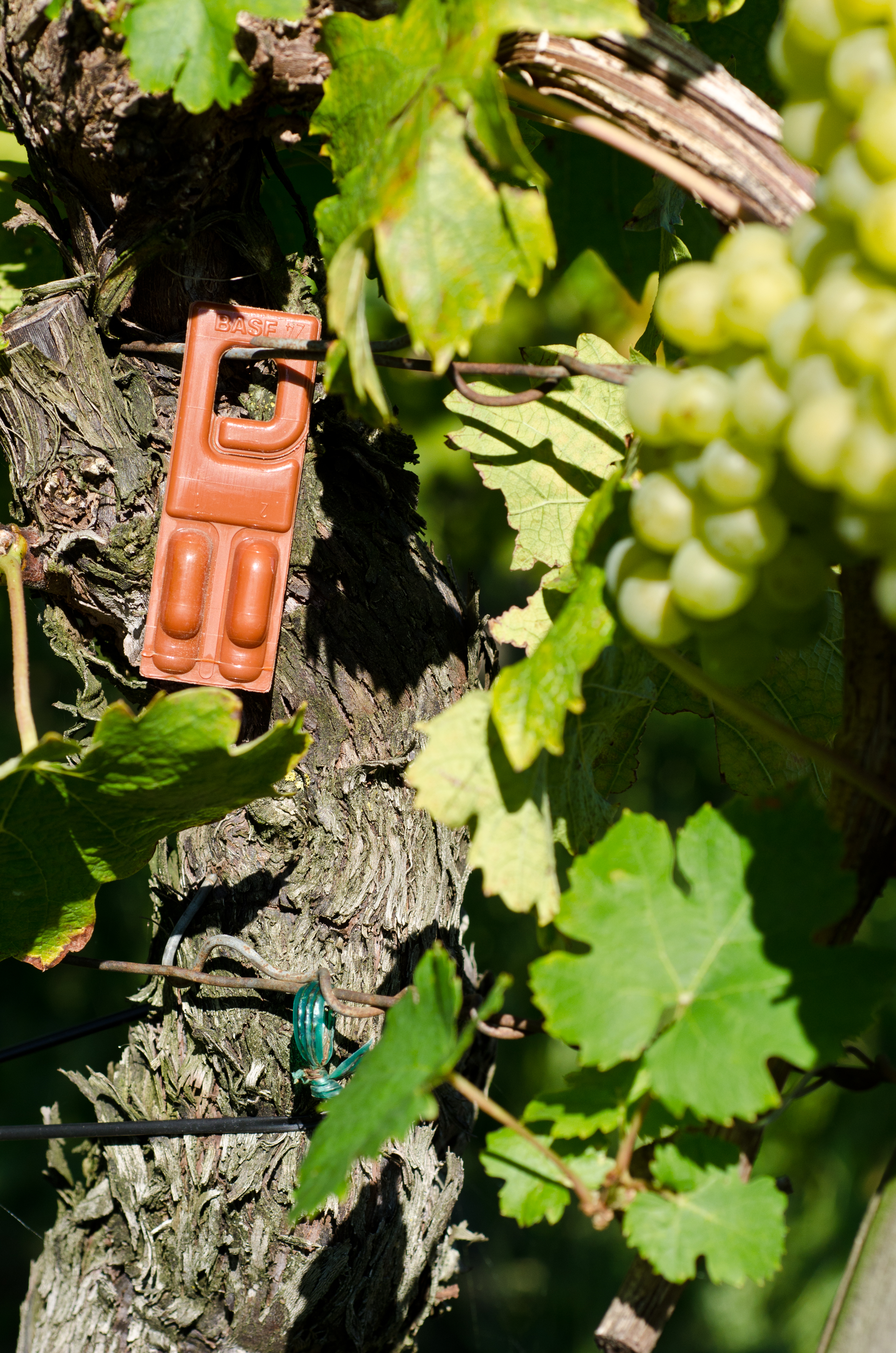 Pheromone Dispenser in a vineyard, Hagnau, Lake Constance, Germany